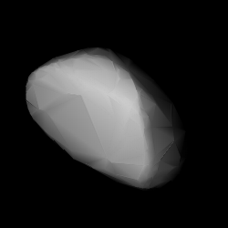 3D convex shape model of 1576 Fabiola, computed using light curve inversion techniques. J. Hanuš, J. Ďurech, M. Brož, B. D. Warner (June 2011). "A study of asteroid pole-latitude distribution based on an extended set of shape models derived by the lightcurve inversion method". Astronomy and Astrophysics 530: A134. ISSN 0004-6361. arXiv